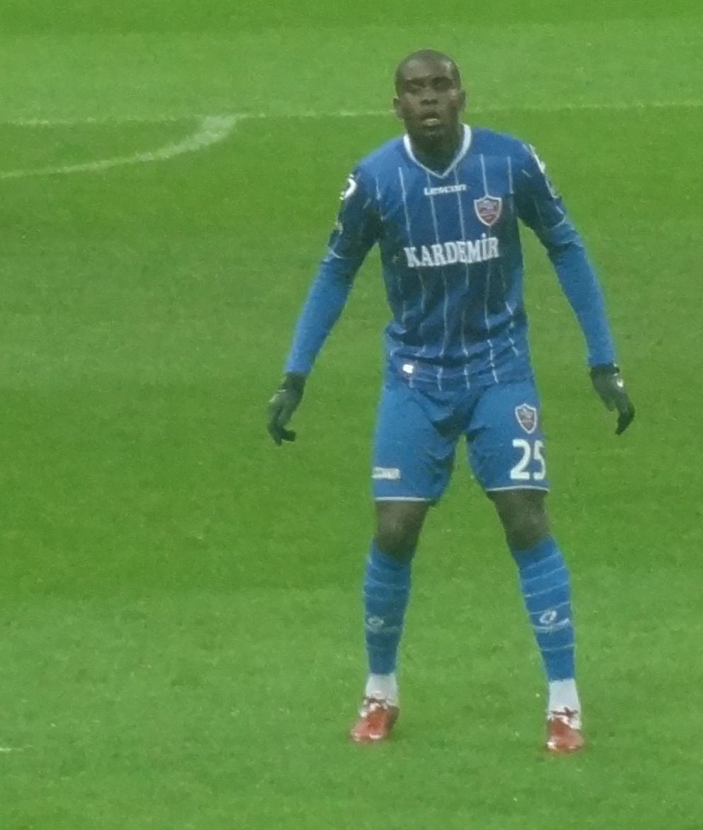 Mabiala playing against gs